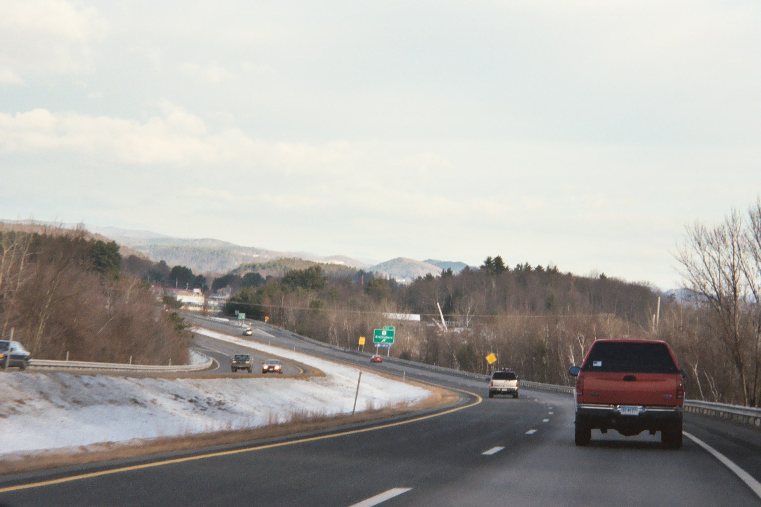 Picture taken by "author," December 2003.